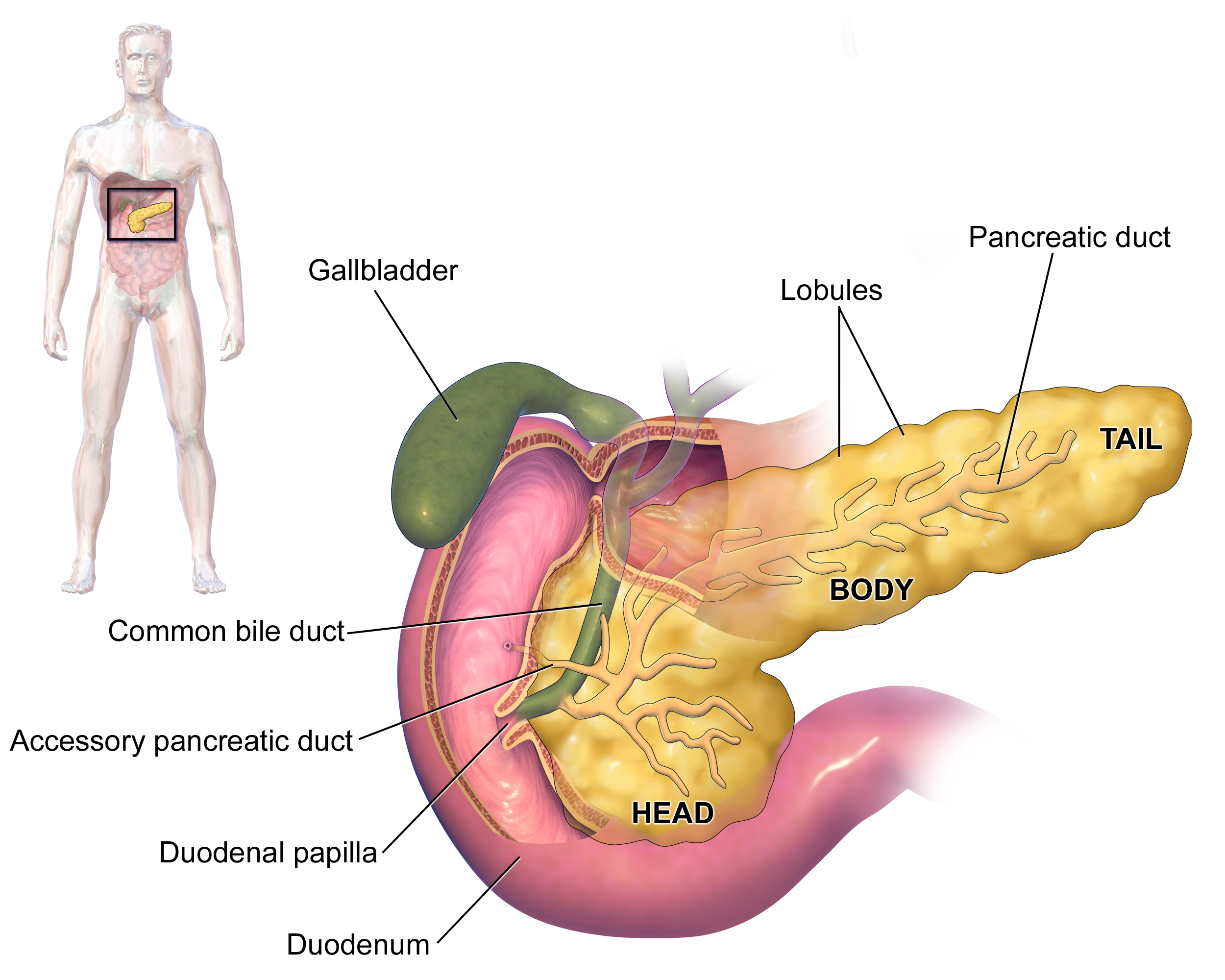 The Pancreas. See a full animation of this medical topic.